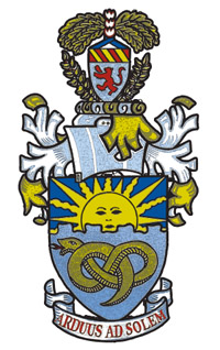 Coat of arms of the former Victoria University of Manchester (1871). Motto - Arduus ad solem (striving toward the sun).